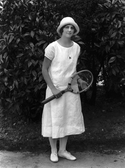 Australian tennis player Daphne Akhurst by Bassano, whole-plate glass negative, 1925